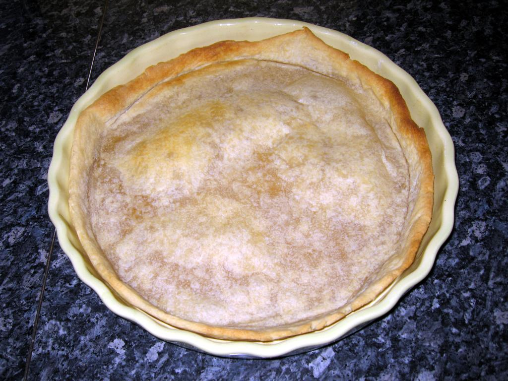 Shortcrust pastry recipe, step 8